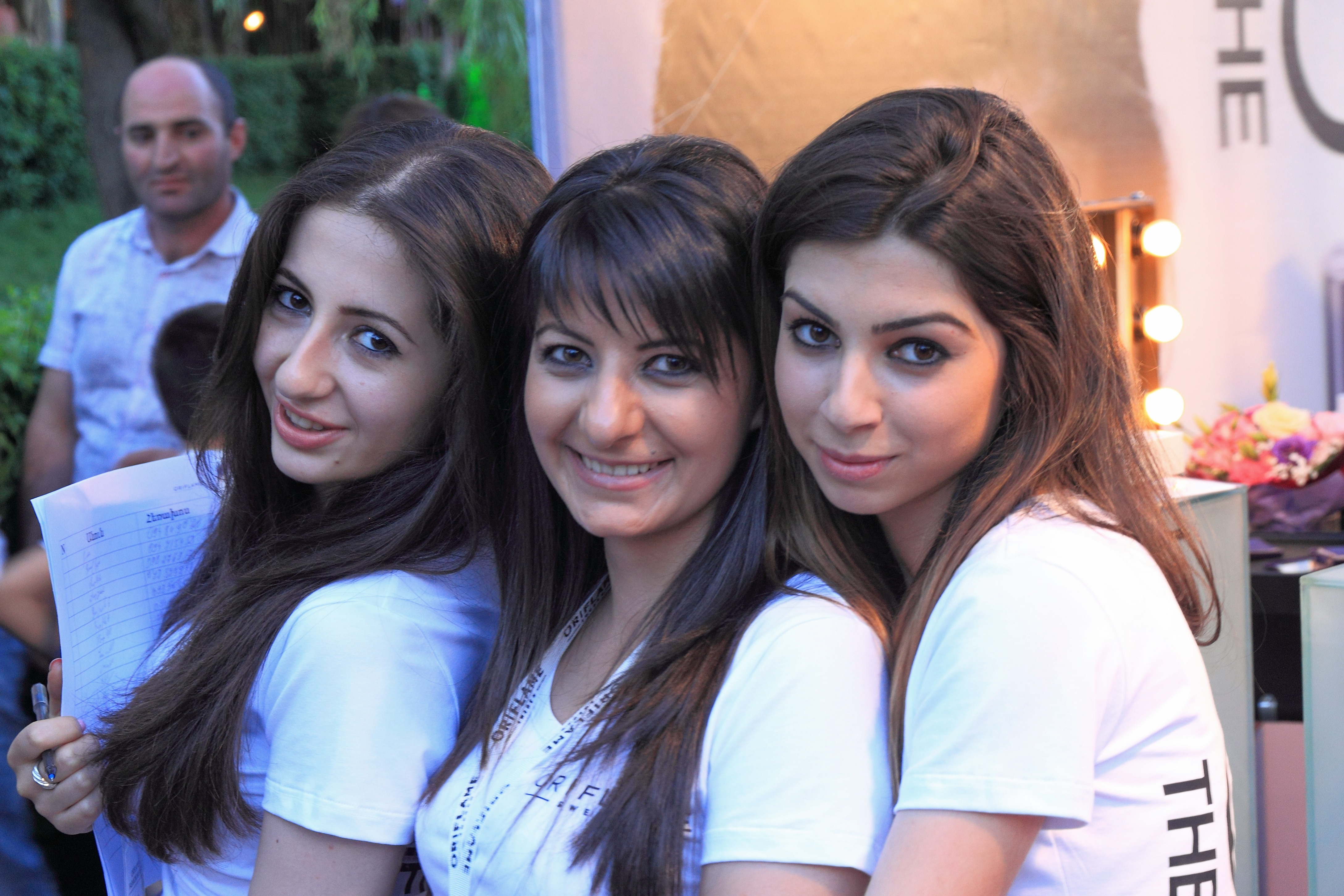 Hostesses from Oriflame Fashion Night 2014. Swan Lake, Yerevan, Armenia.